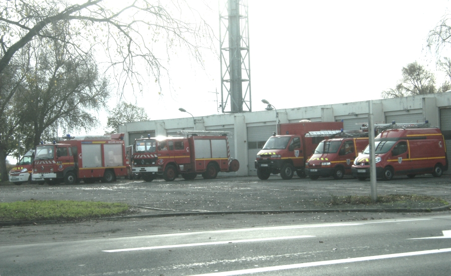 Centre de secours principal de Rochefort(Charente-Maritime)